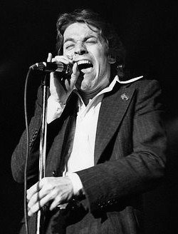 The photographer's description says: "During a bicentennial performance at the Sunset Strip Roxy, Robert Palmer strongly reacts to a premonition of his eminent addiction to love." This is a cropped, shrunk, and slightly re-touched version of the original image.